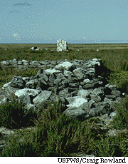 Remains of earlier human habitation Itascatown on Howland Island in the central Pacific Ocean